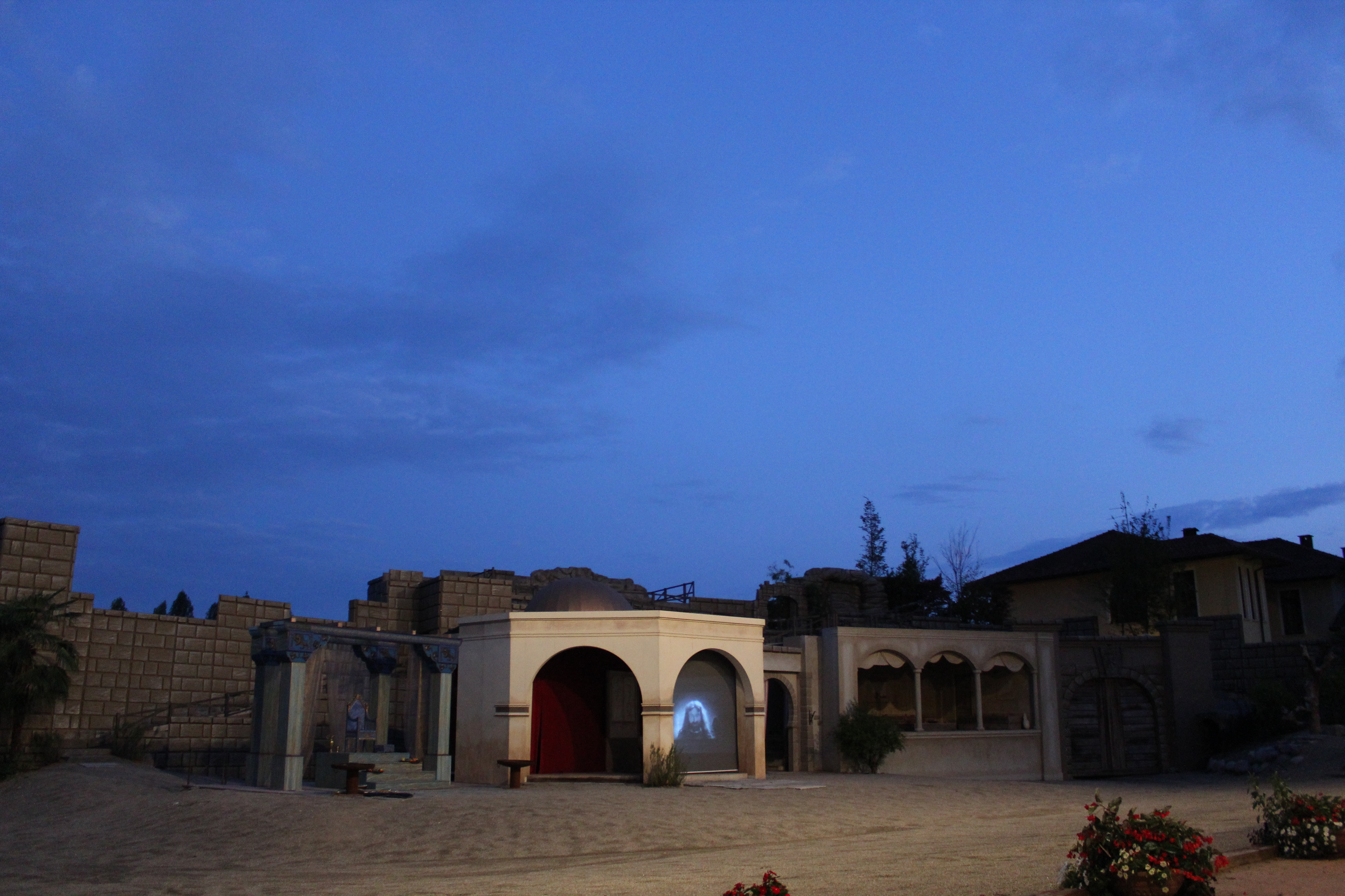 The Sanhedrin and the Last Supper room